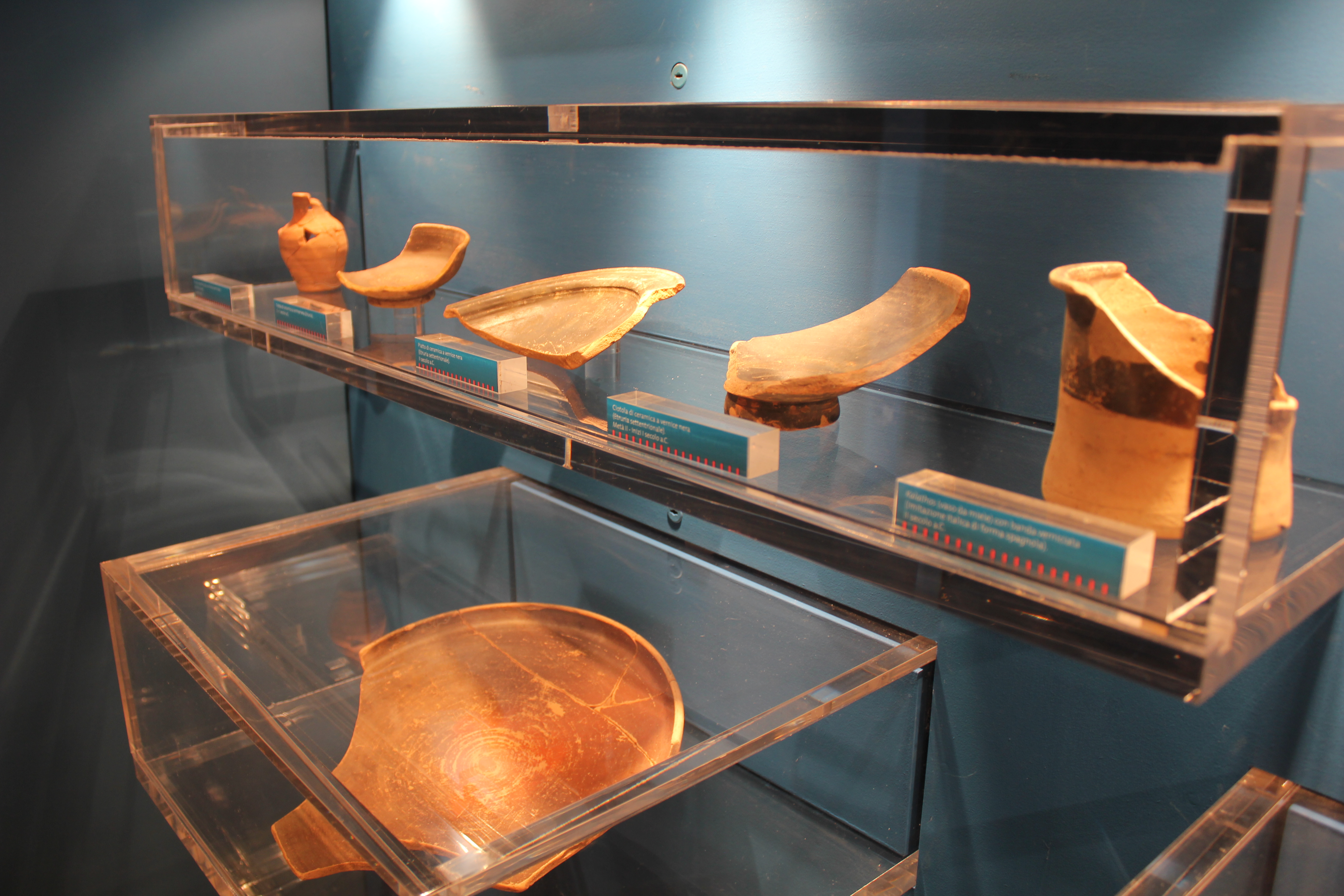 Archeological Museum of Portus Scabris, Puntone di Scarlino